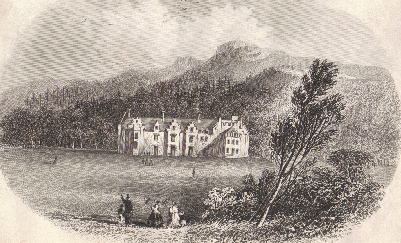 Invercauld House before extensive rebuilding. Scotland.